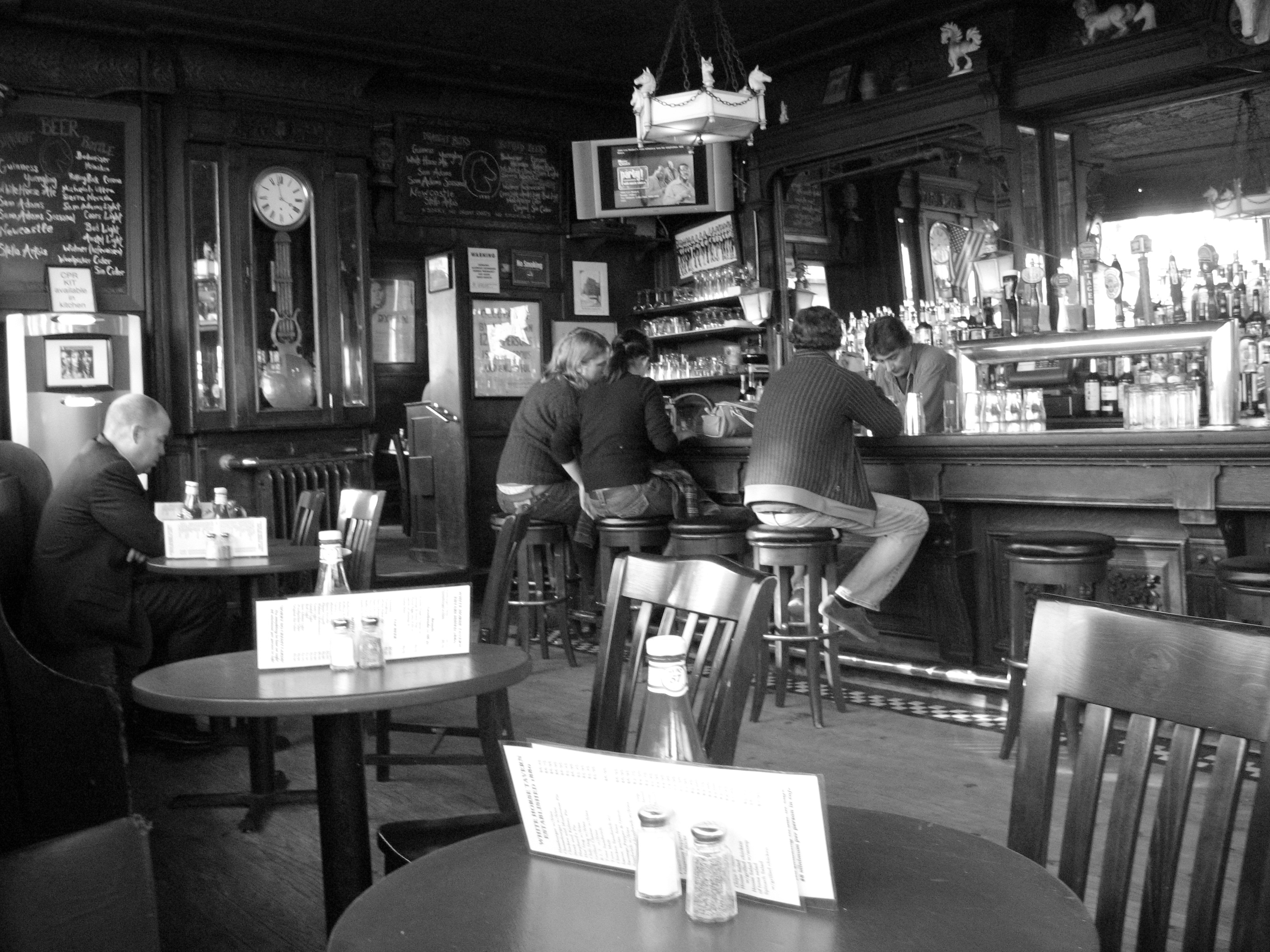 Interior of the famed White Horse Tavern in January 2007.